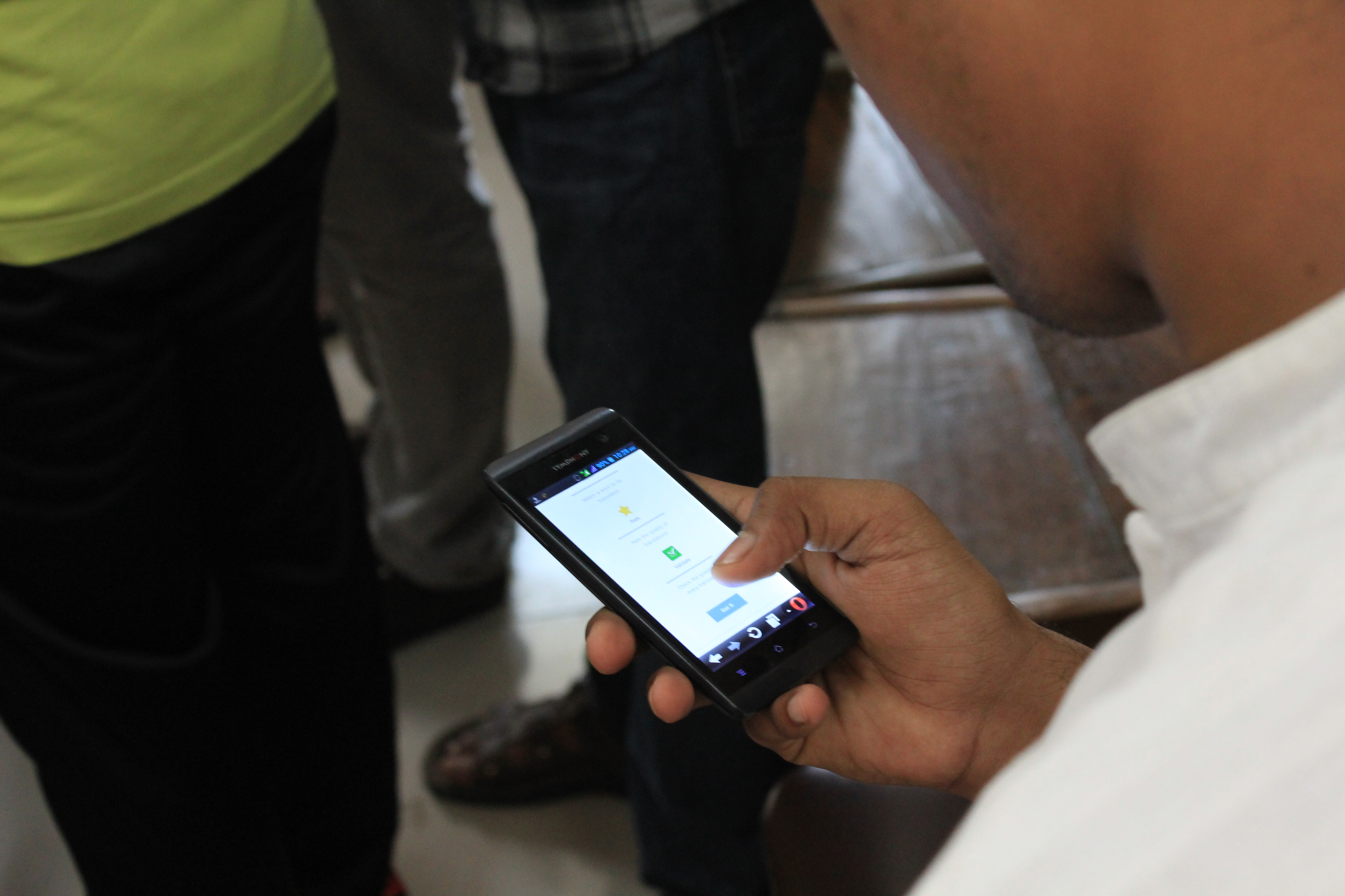 Google Translate A-Thon Begins At Dhaka University, Bangladesh.